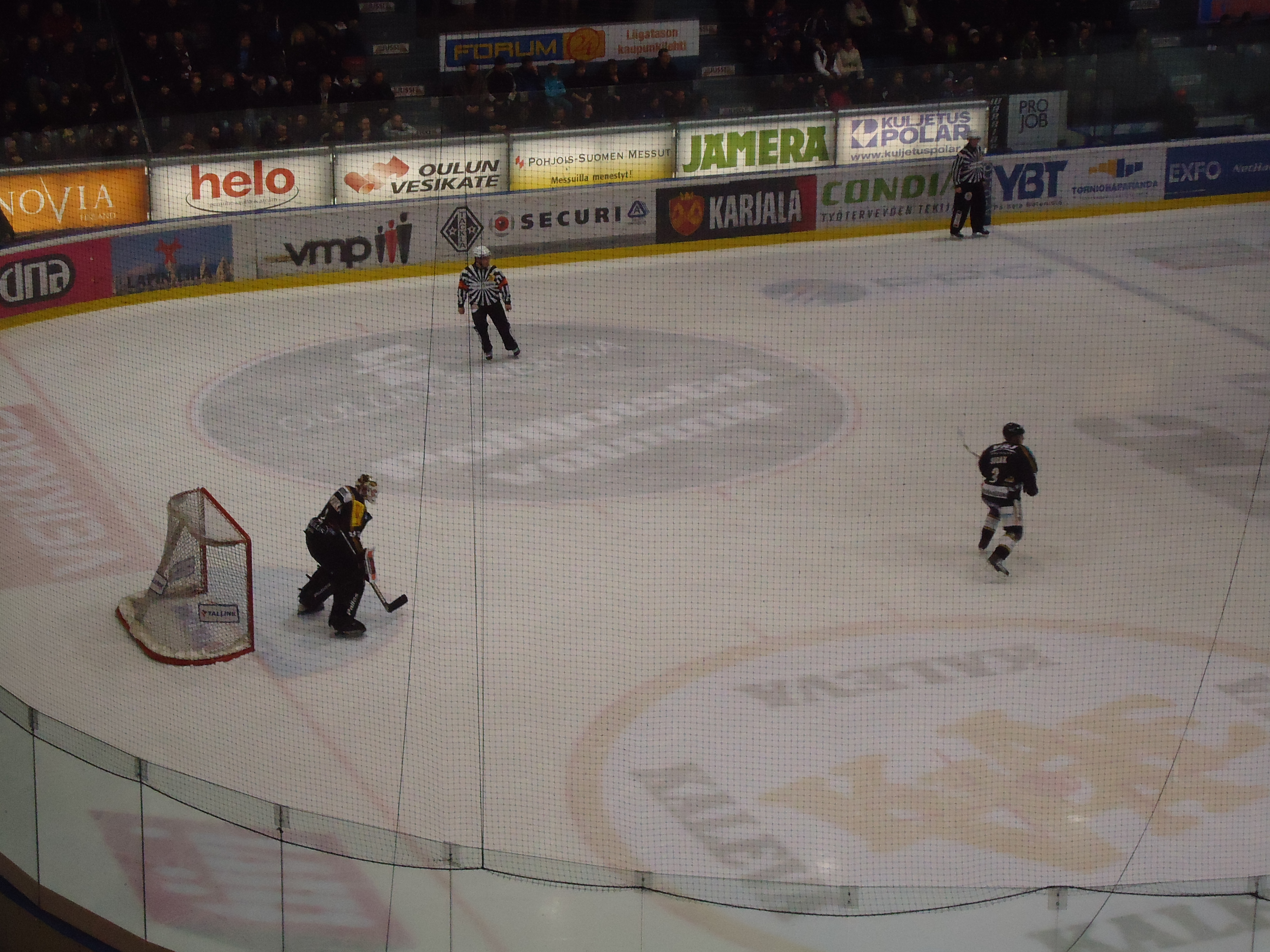 Ville Hostikka in action in an ice hockey game between Kärpät and Tappara in the Oulun Energia Areena in Oulu, Finland